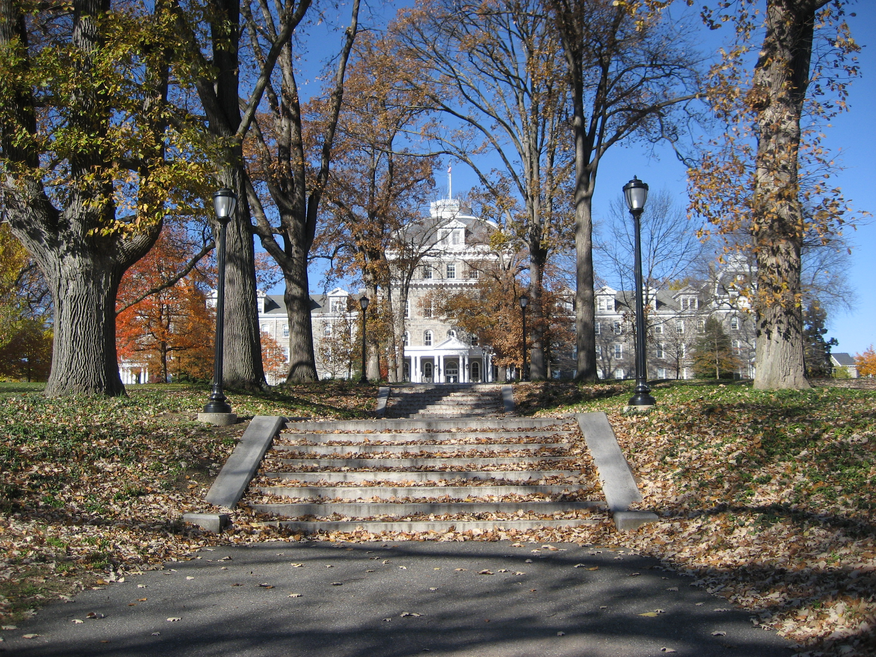 A picture of Swarthmore College's Parrish Hall in Swarthmore, PA